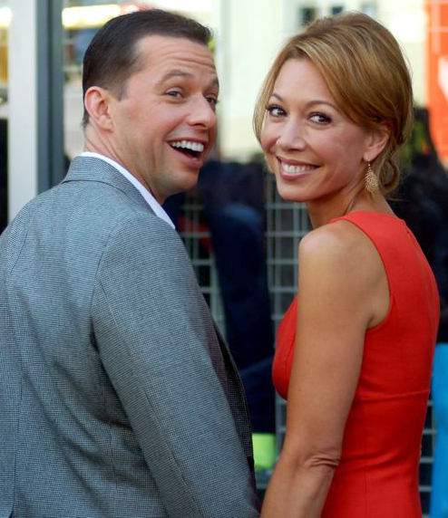 Jon Cryer and Lisa Joyner at a ceremony for Cryer to receive a star on the Hollywood Walk of Fame in September 2011.